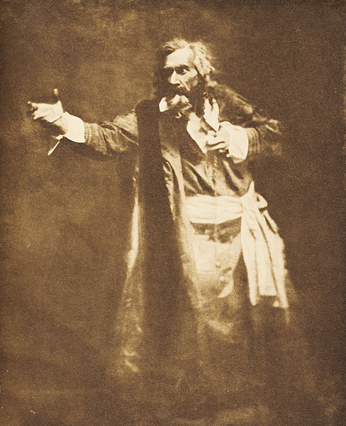 Shylock - a Study Keiley, Joseph, b.1869 - 1914 Camera Notes Vol. 5 No. 1, 1901 14.4 x 18 cm Photogravure